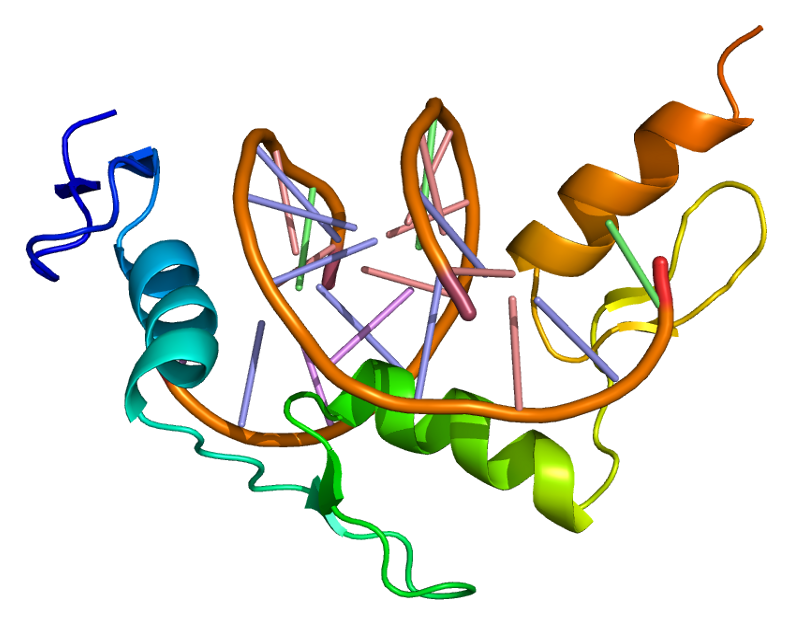 Structure of the EGR2 protein. Based on PyMOL rendering of PDB 1a1i.